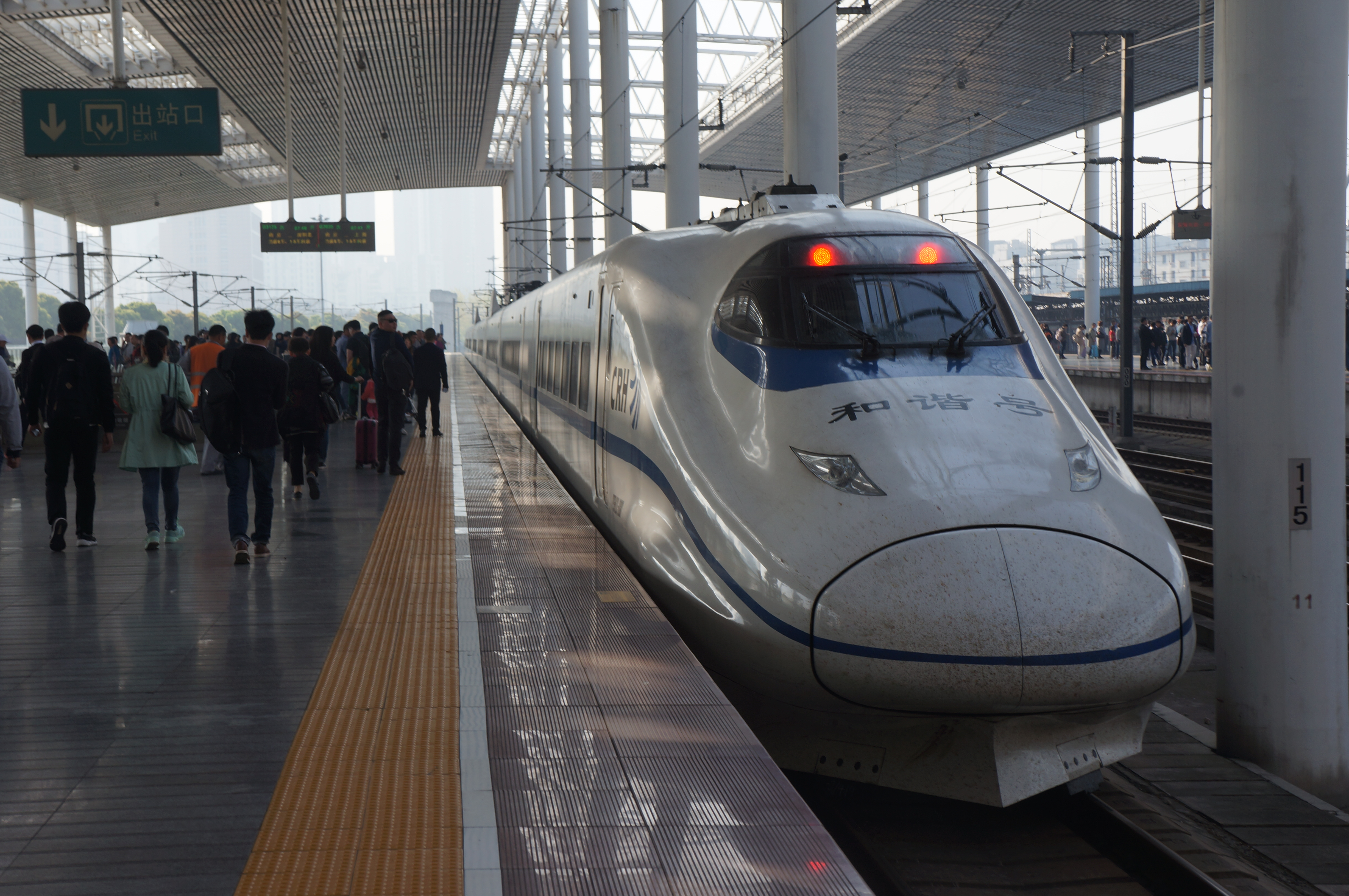 201704 G7035 at Wuxi Station